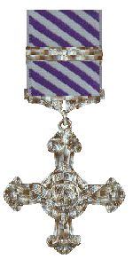 Distinguished Flying Cross (UK)